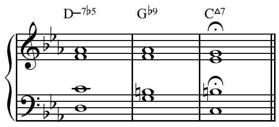 Four-voice ii-V-I turnaround in C minor.